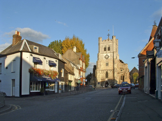 Waltham Abbey, Essex Highbridge Street looking east towards Waltham Abbey.